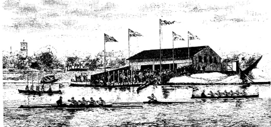 Københavns Roklub at Yømmergraven (where Copenhagen Police Headquarters is today) in Copenhagen, Denmark